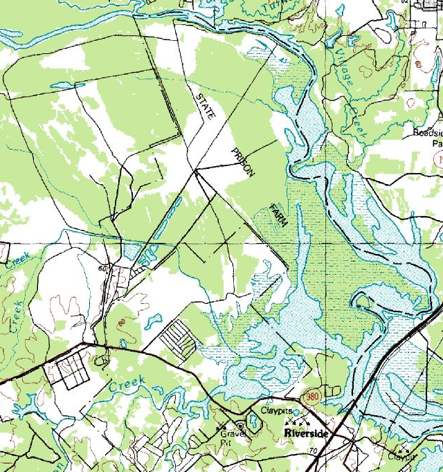 USGS topographic map of the Ellis State Prison Farm (Ellis Unit) in Texas